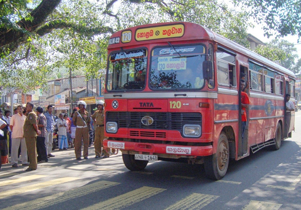 Ingiriya Transport02